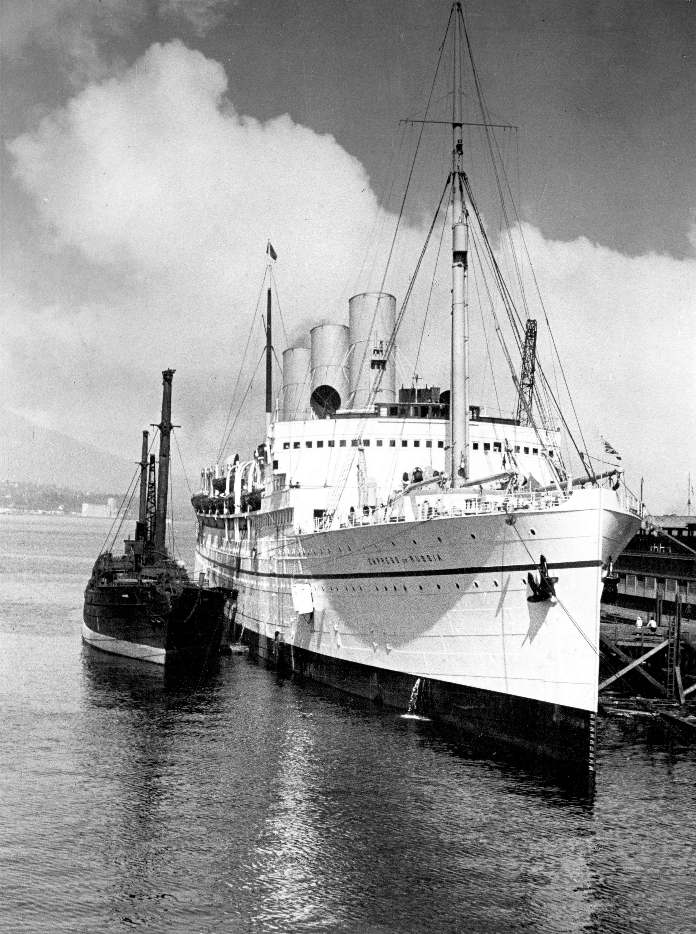 RMS Empress of Russia taking on coal from hulk "Melanope" at Vancouver.